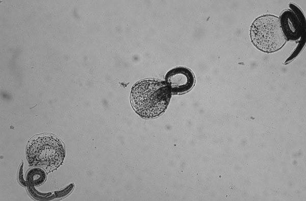 Hatched, stained, nonviable Baylisascaris procyonis larvae (magnification ×10). Source:Shafir S, Wang W, Sorvillo F, Wise M, Moore L, Sorvillo T, Eberhard M. "Thermal Death Point of Baylisascaris procyonis Eggs". Emerg Infect Dis [serial on the Internet]. 2007 Jan [cited 2007 Feb 23]. Available from Public Domain rationale